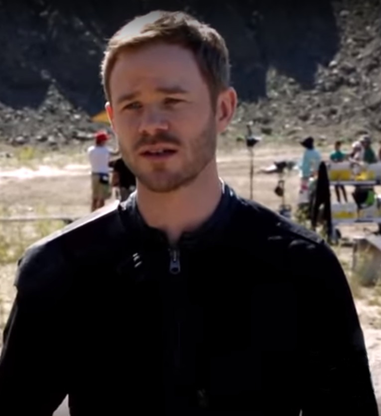 Aaron Ashmore ina an interview for Killjoys in 2015